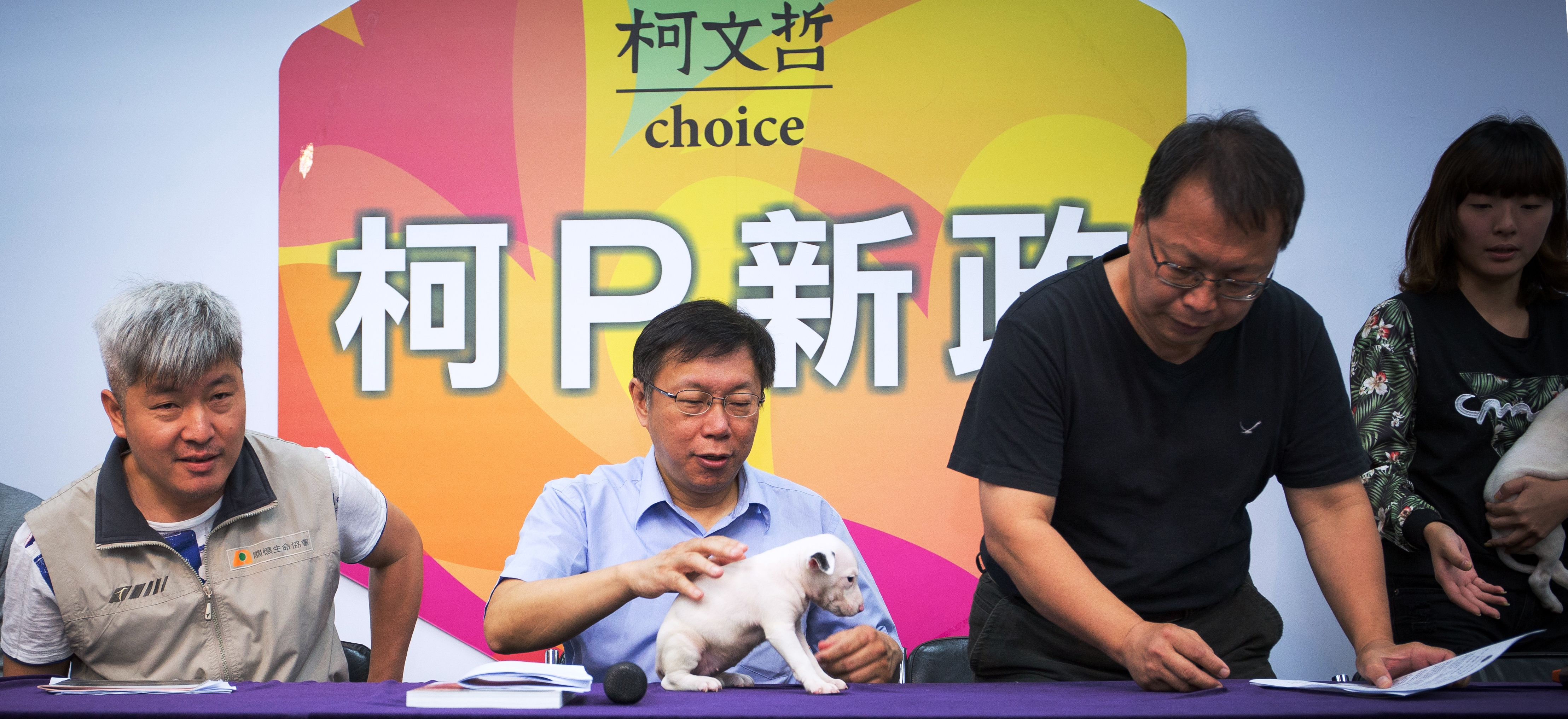 New Policy of KP. He Zongxun (first from left) and independent Taipei mayor candidate Ko Wen-je (second from left) at a press conference on "Building Animal Friendly City".